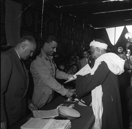 Egyptian president Gamal Abdel Nasser handing documents to an Egyptian fellah in al-Minya